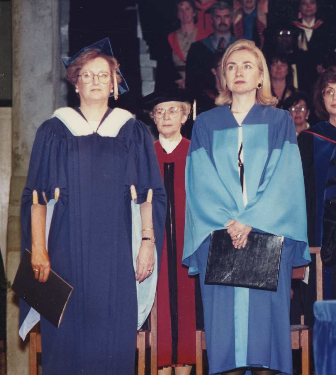 Elizabeth Parr-Johnston & Hillary Clinton at Mount Saint Vincent University, Halifax NS, Canada